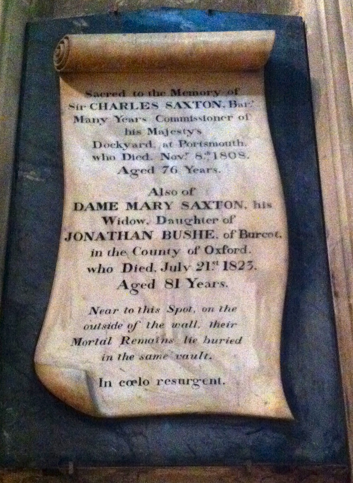 Sacred to the memory of Sir Charles Saxton, Bar. Many years Commissioner of his Majesty Dockyard at Portsmouth, who died Nov 8th 1808, aged 76 years. Also of Dame Mary Saxton, his widow, daughter of Jonathan Bushie of Burcet in the county of Oxford, who died July 21st 1825 aged 81 years.